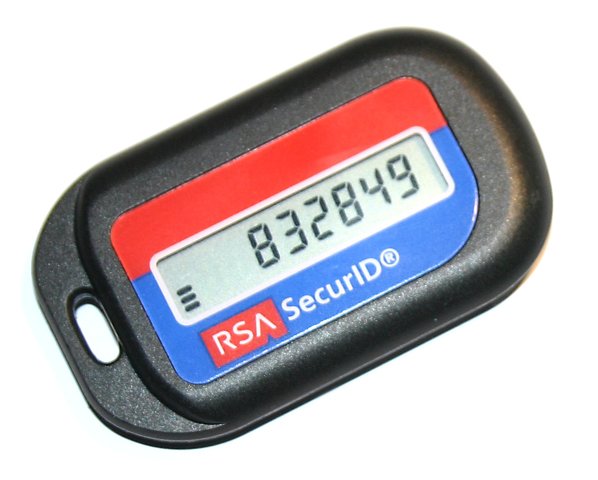 RSA SecurID Tokens